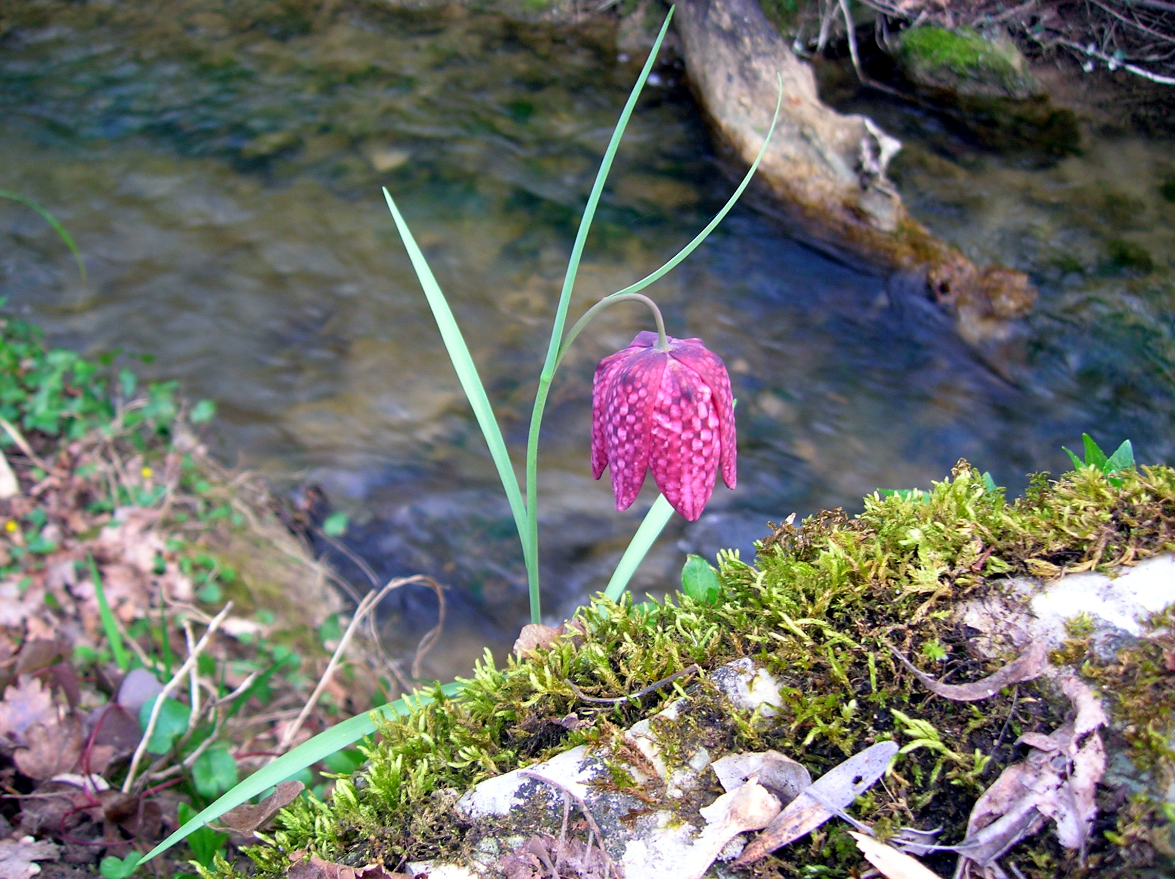 Fritillaria meleagris is an endangered species rarely found in the wild in France, but I found many of them in the Lot region.